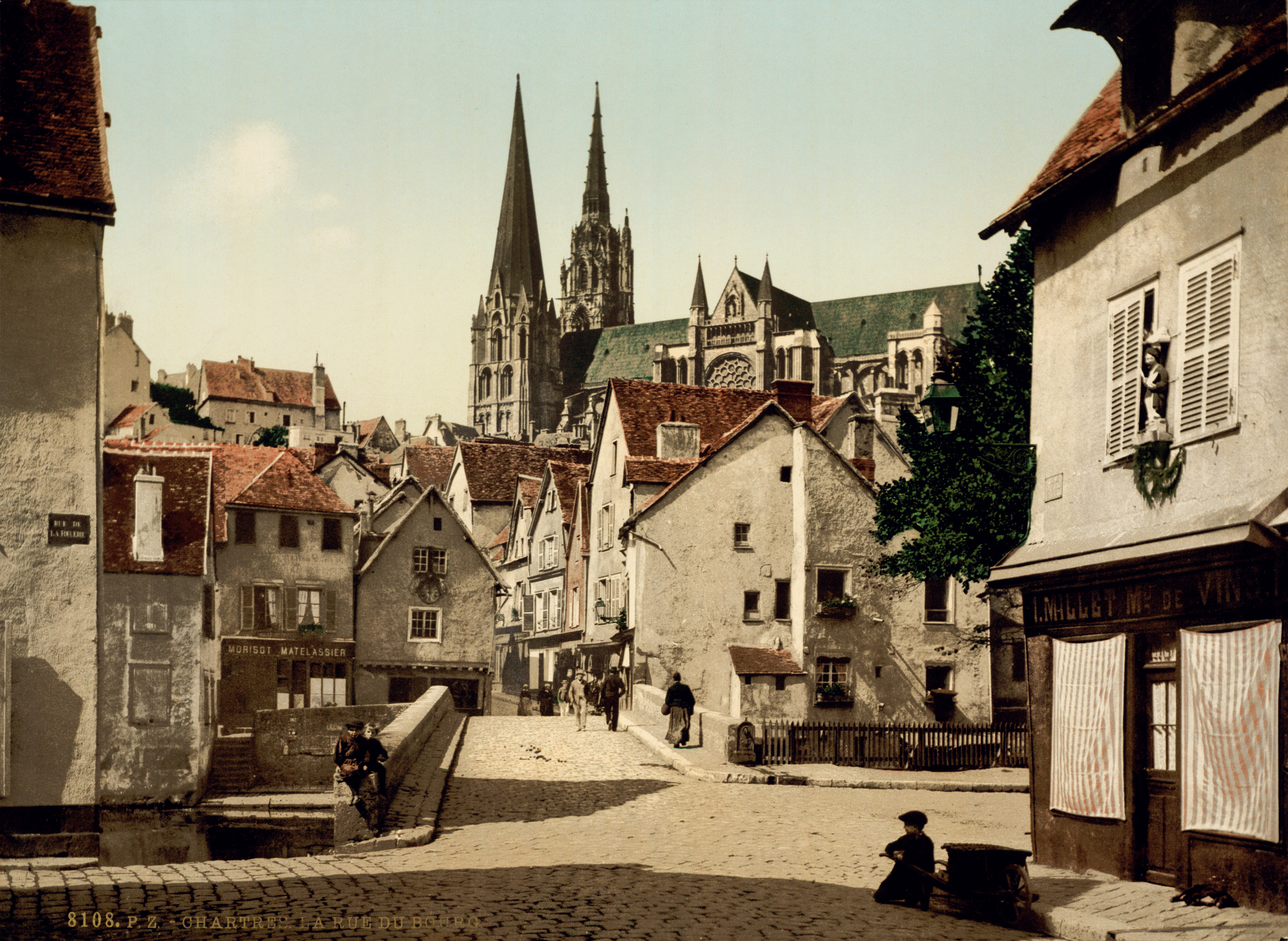 8108 P.Z. Chartres, la rue du Bourg. Photochrom print by Photoglob Zürich, between 1890 and 1900.